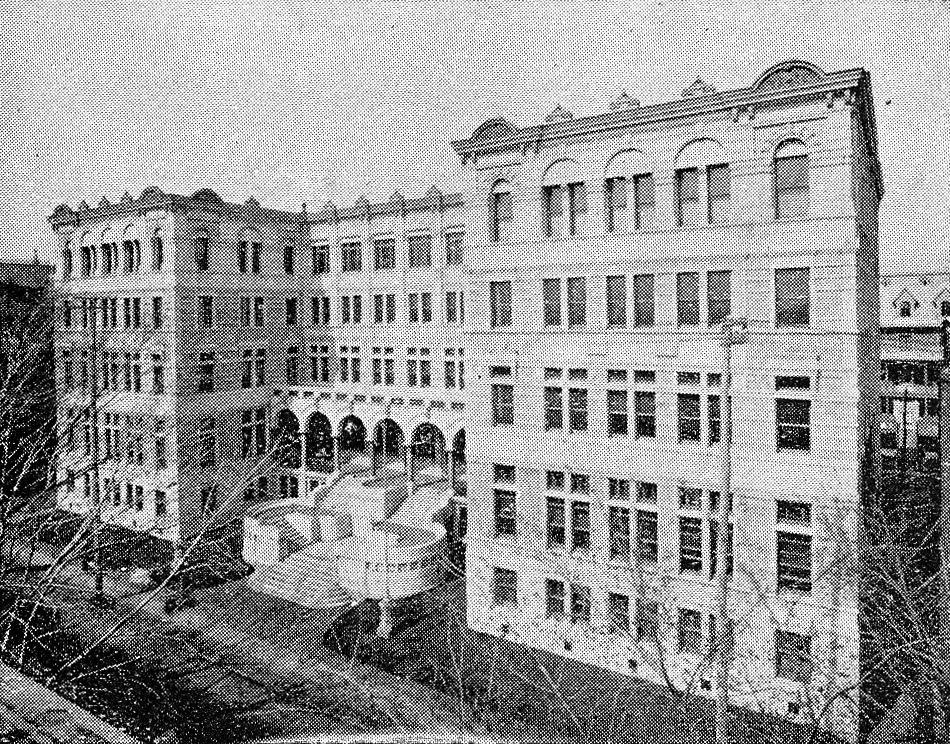 Laval University in Montreal